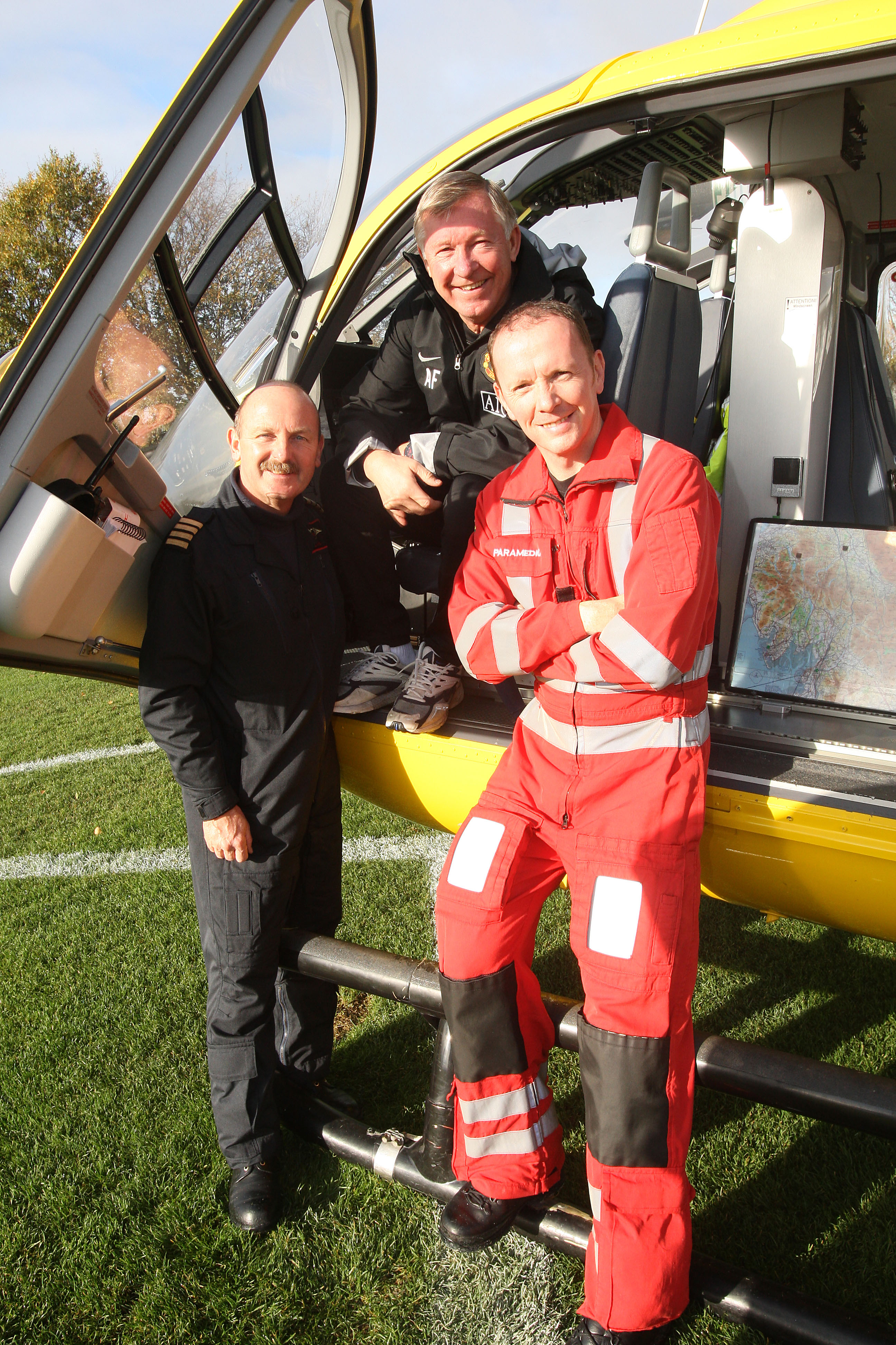 Sir Alex Ferguson with crew of North West Air Ambulance on a visit to Manchester United’s Carrington training ground.